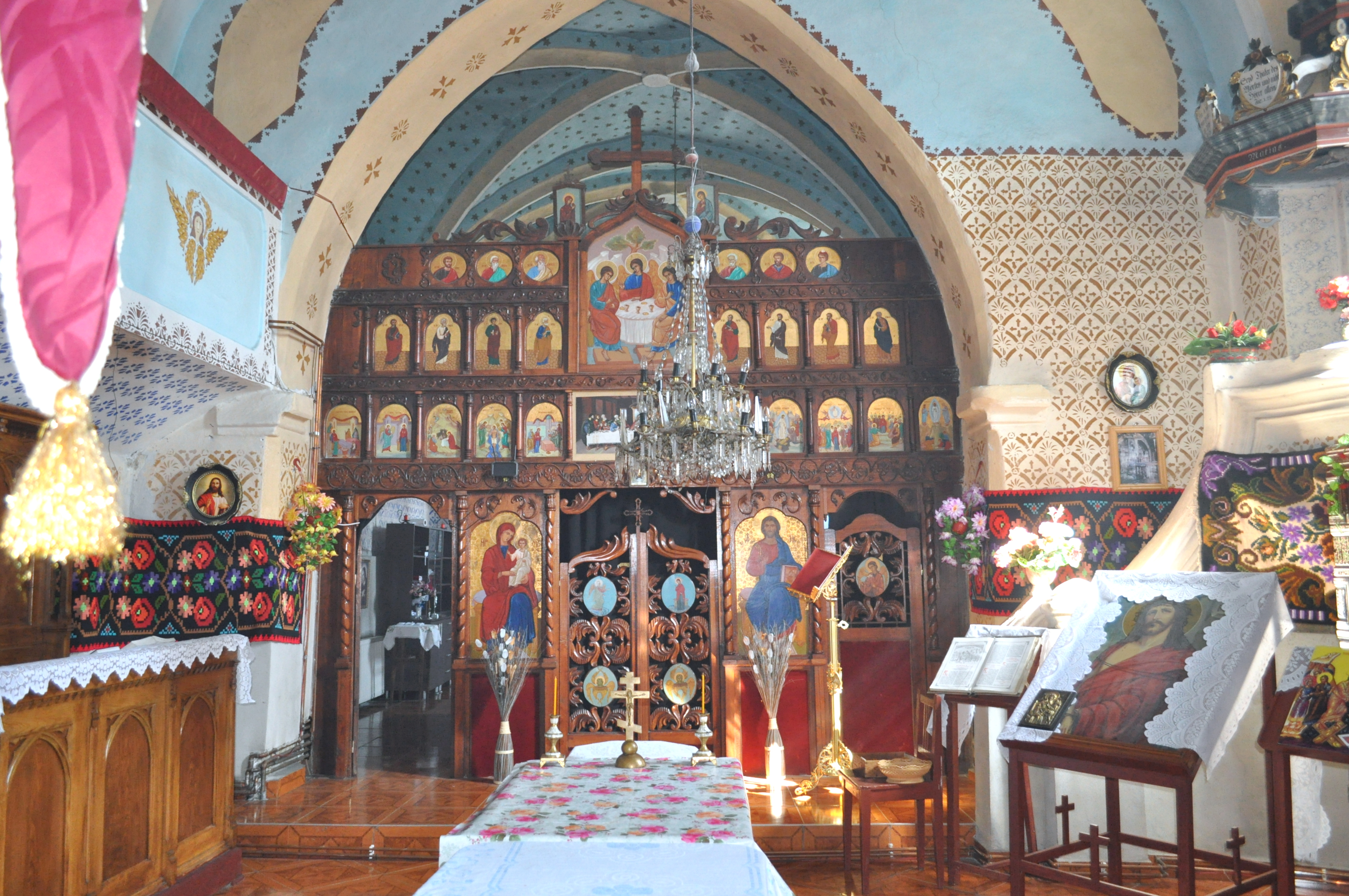 Lutheran church in Slătinița, Bistrița-Năsăud County, Romania